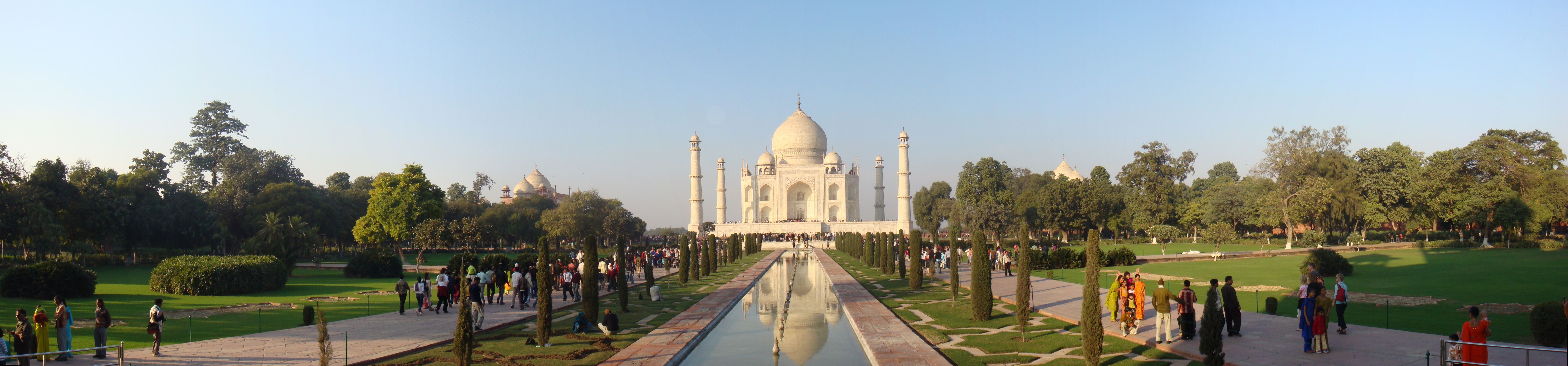 Panoramic View of Taj Mahal